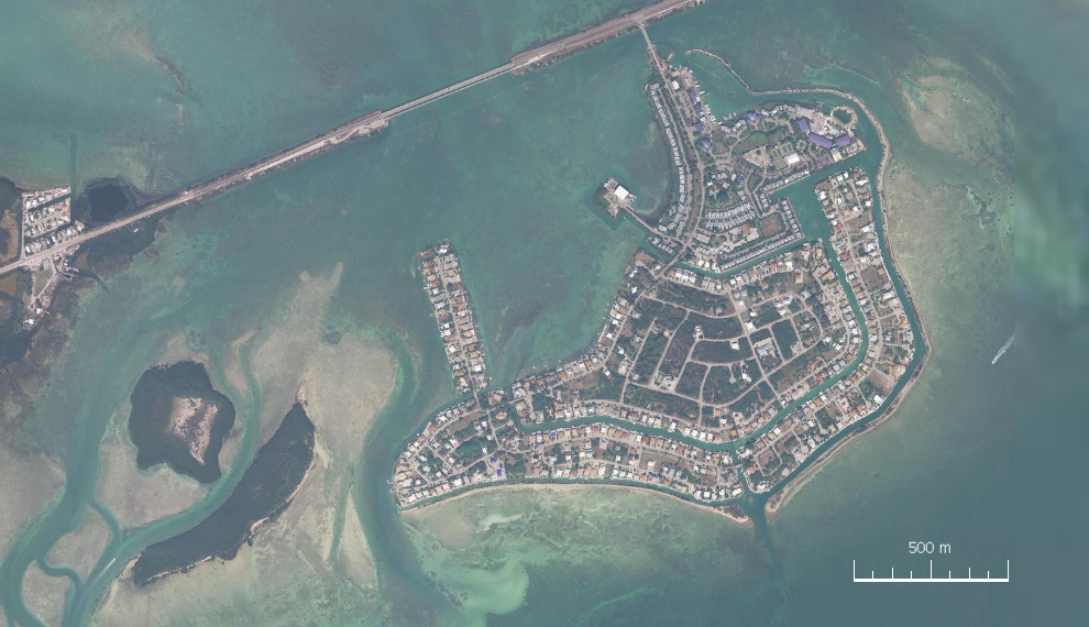 Duck Key and Toms Harbor Keys, Lower Florida Keys